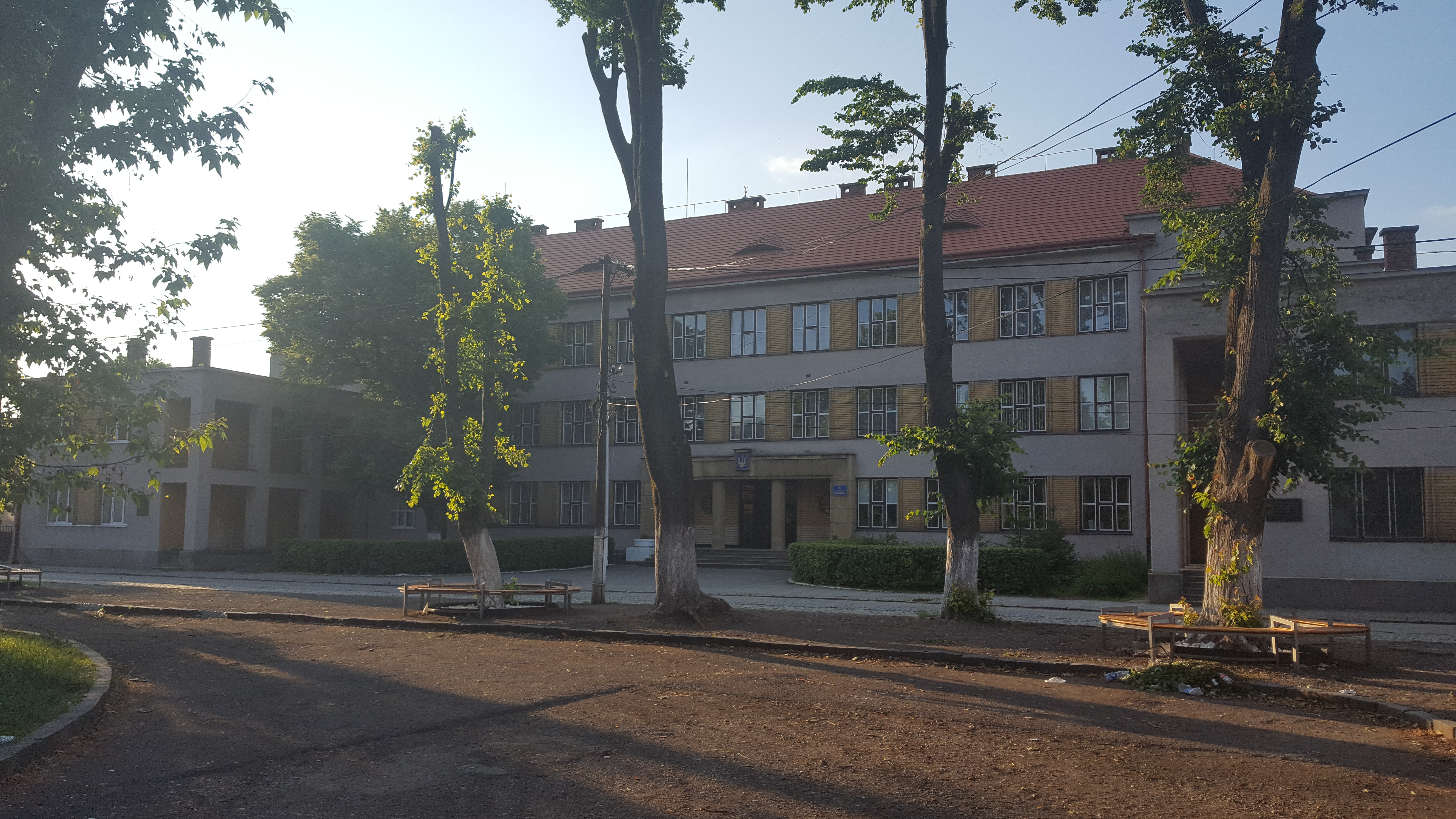 High school in Khust, Ukraine. The building was constructed in the 1930s within the "Czech quarter" of the city. On the small white building at the left (probably a former gym), a memorial plaque commemorates the proclamation of an independent Carpatho-Ukraine on 15 March 1939.